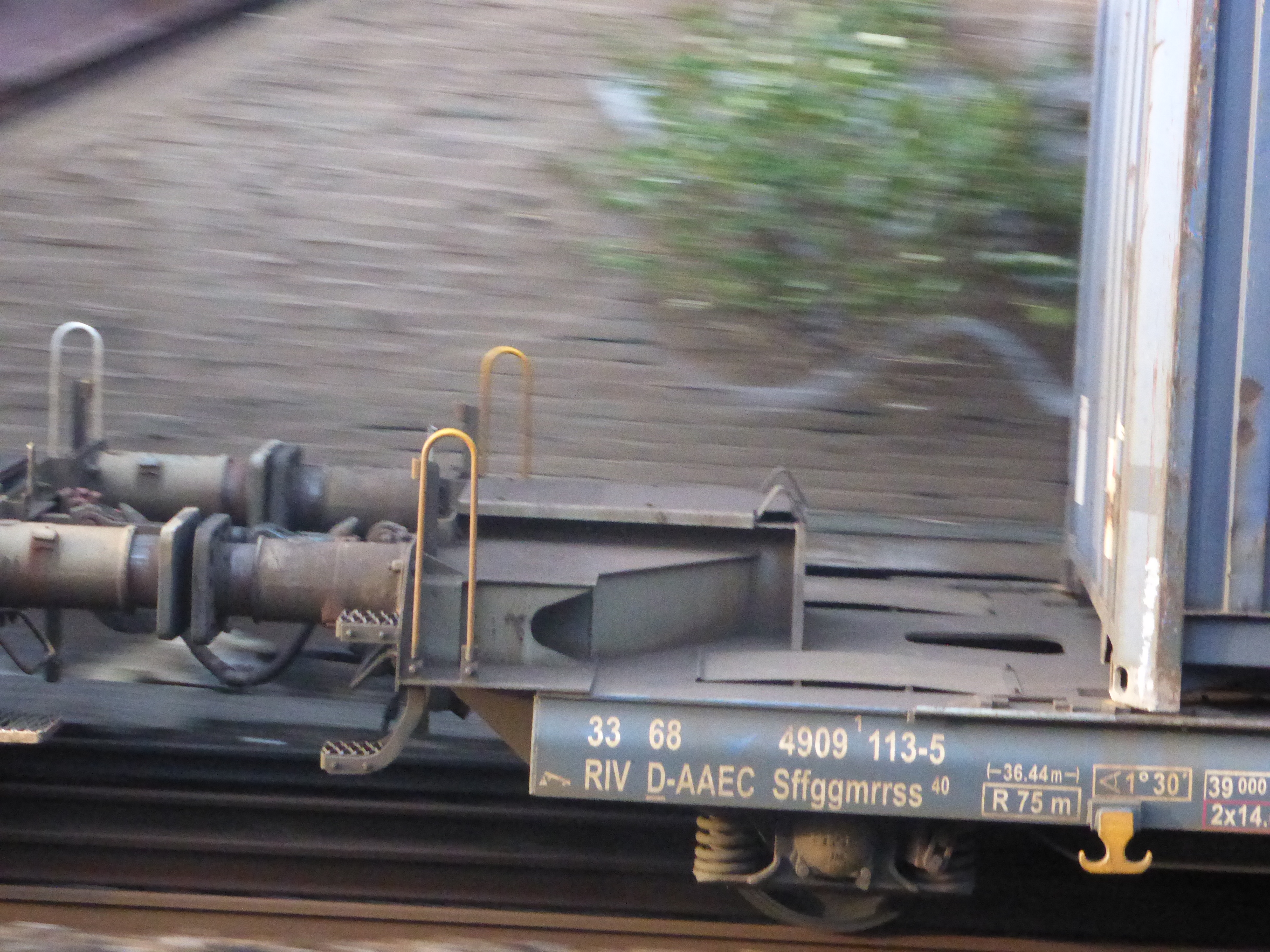 while Mattias Catry photographed it at Spiez, Canton of Berne, Switzerland on 18 May 14 where a locomotive change occurs